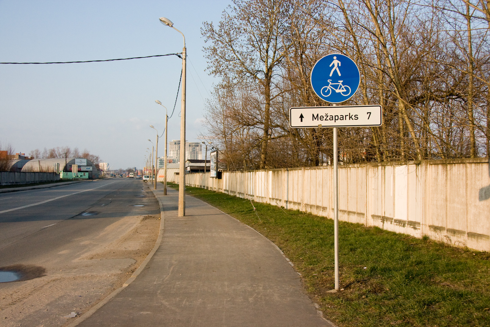 Bicycle path in Riga from central part to Mežaparks